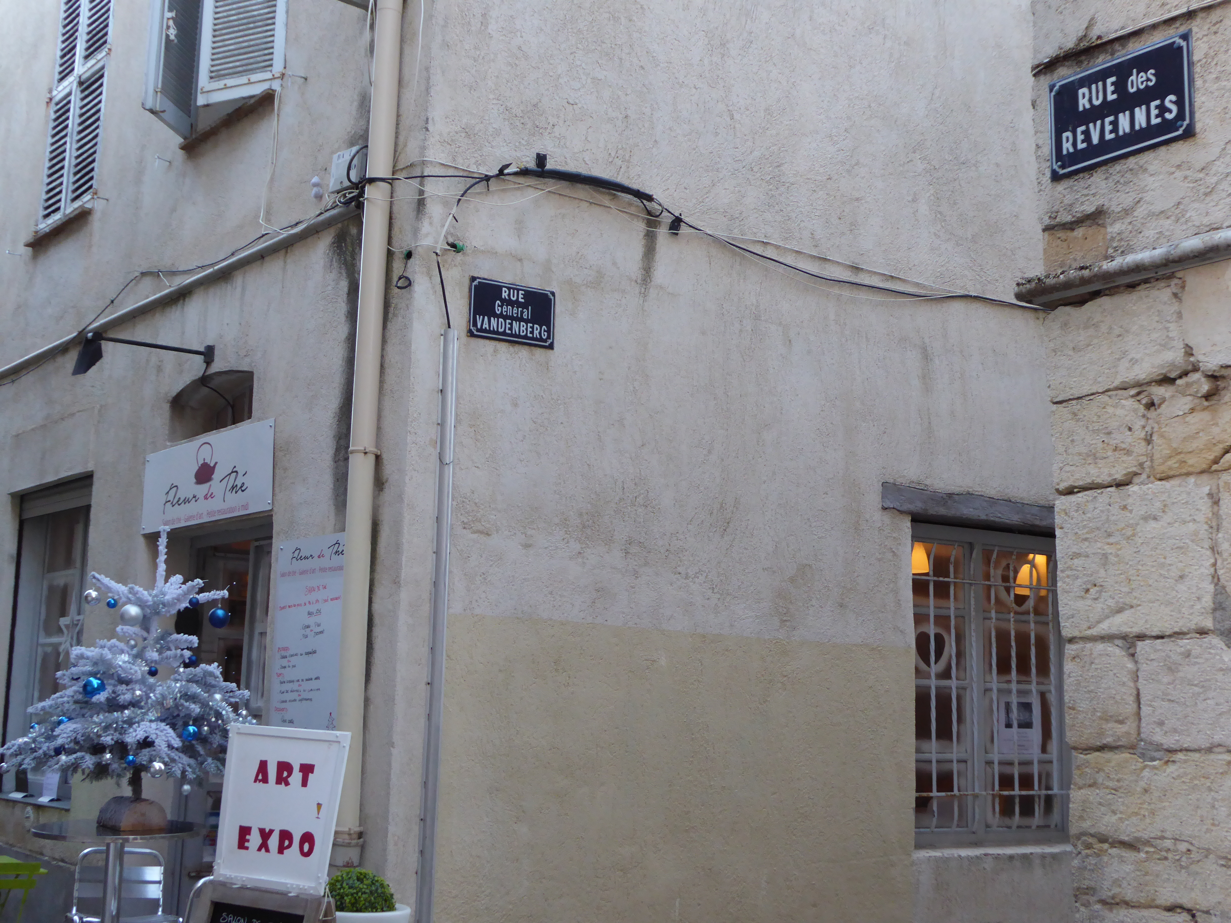 Rue des Revennes, Antibes